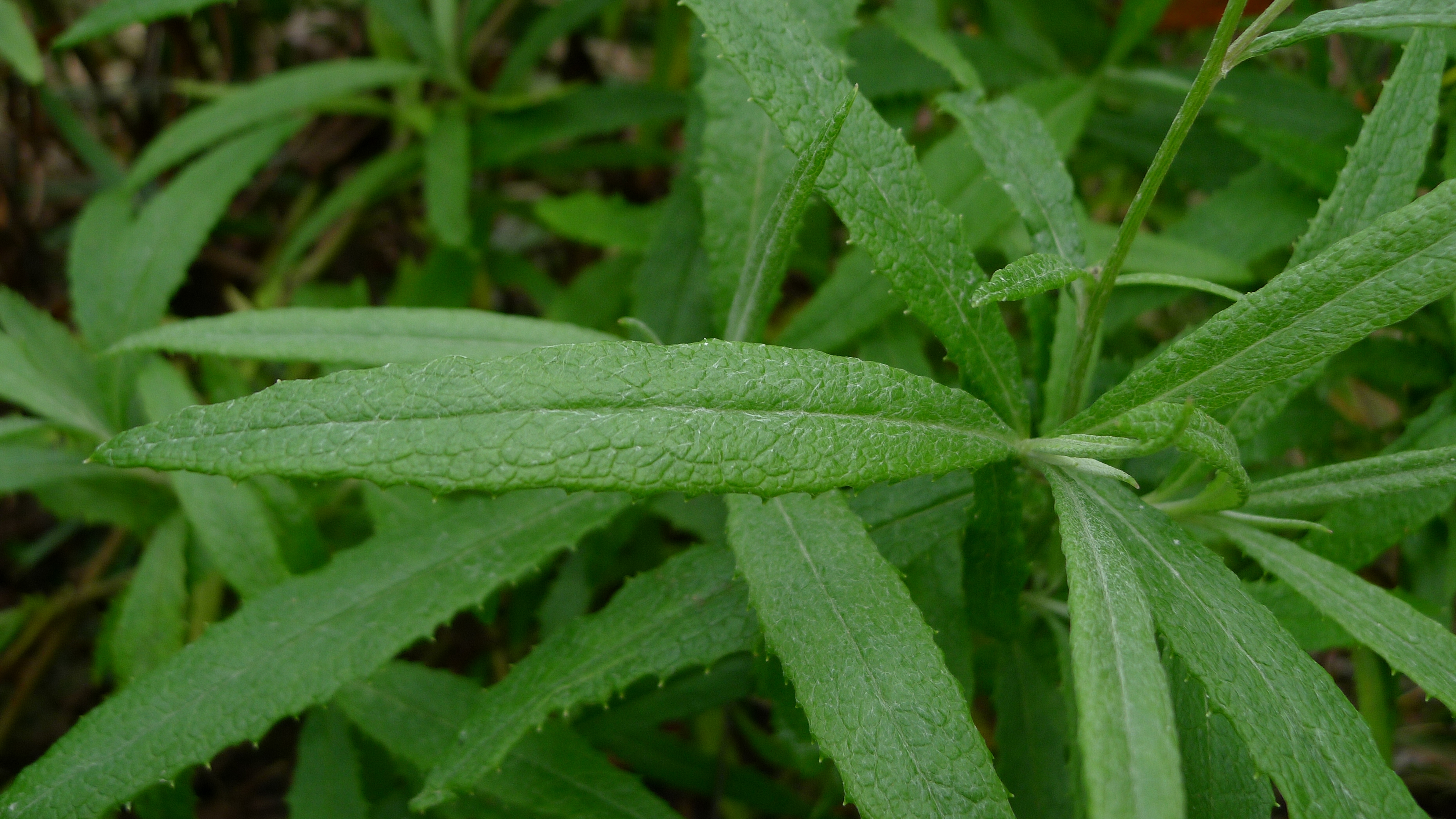 Fireweed Groundsel, Senecio linearifolius. New Country Swamp, Mummel Gulf National Park, NSW Australia, April 2013.